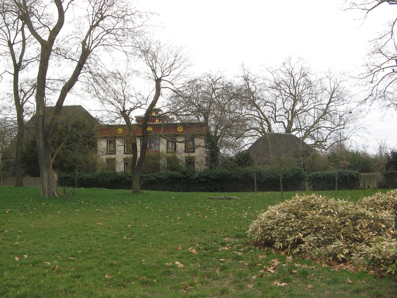 The budhist temple at the bois de Vincennes (Paris)